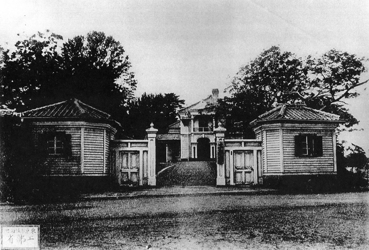 Kobusho HQ, 1875